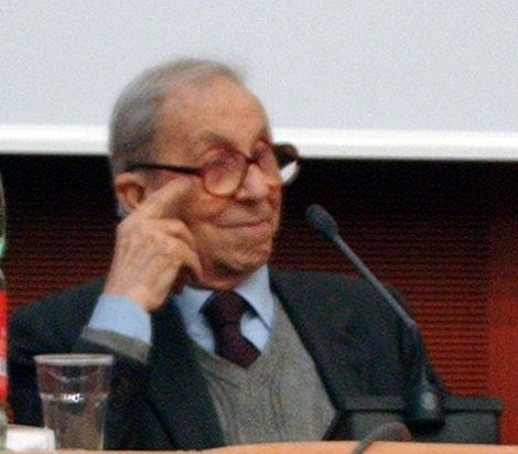 Antonio Ghirelli attending a meeting during a book fair, Galassia Gutenberg